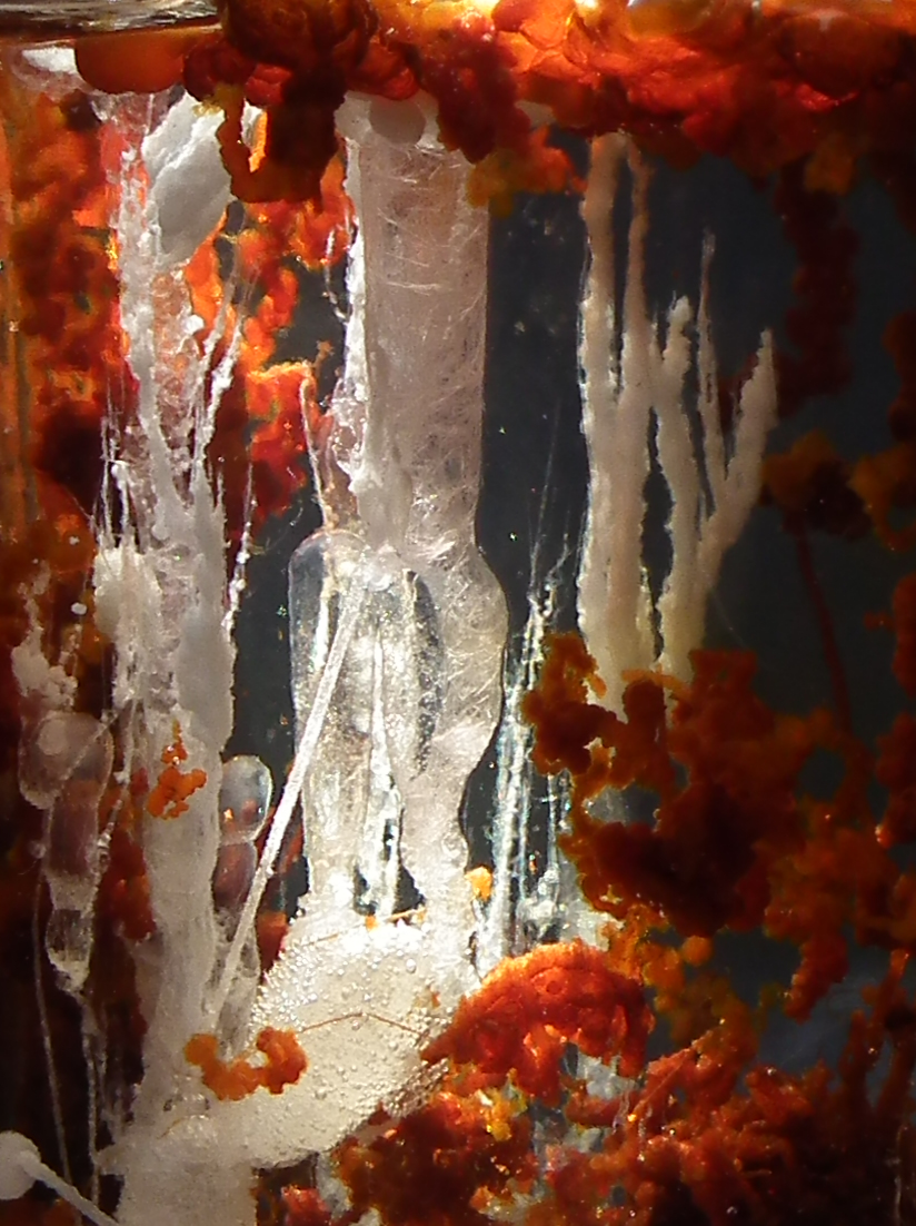 Silicate garden or chemical garden